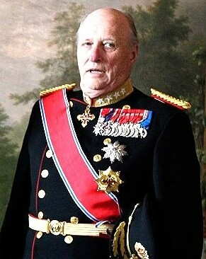 King Harald V of Norway.